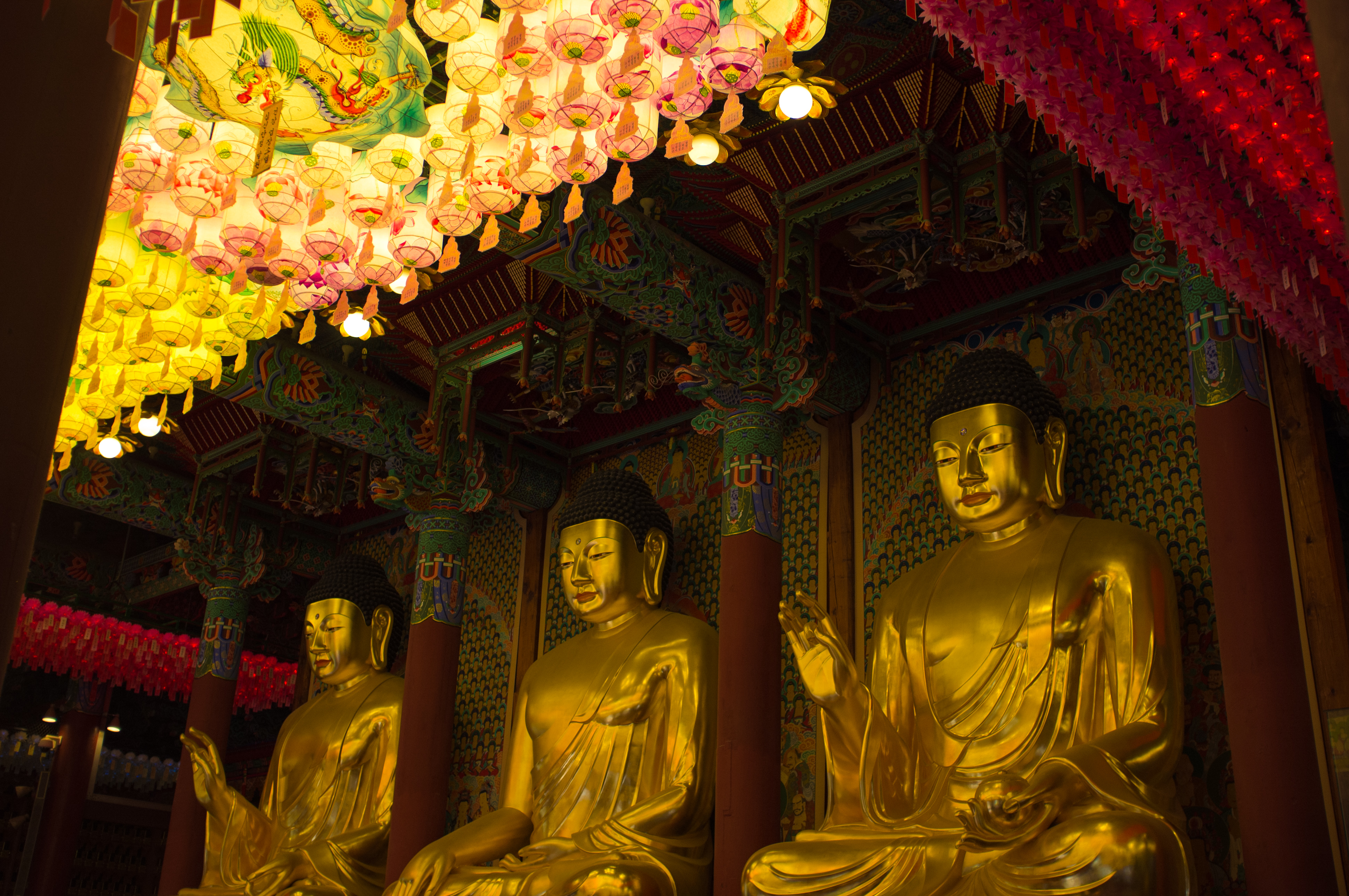 The three buddha statues in Jogyesa Temple in Seoul.